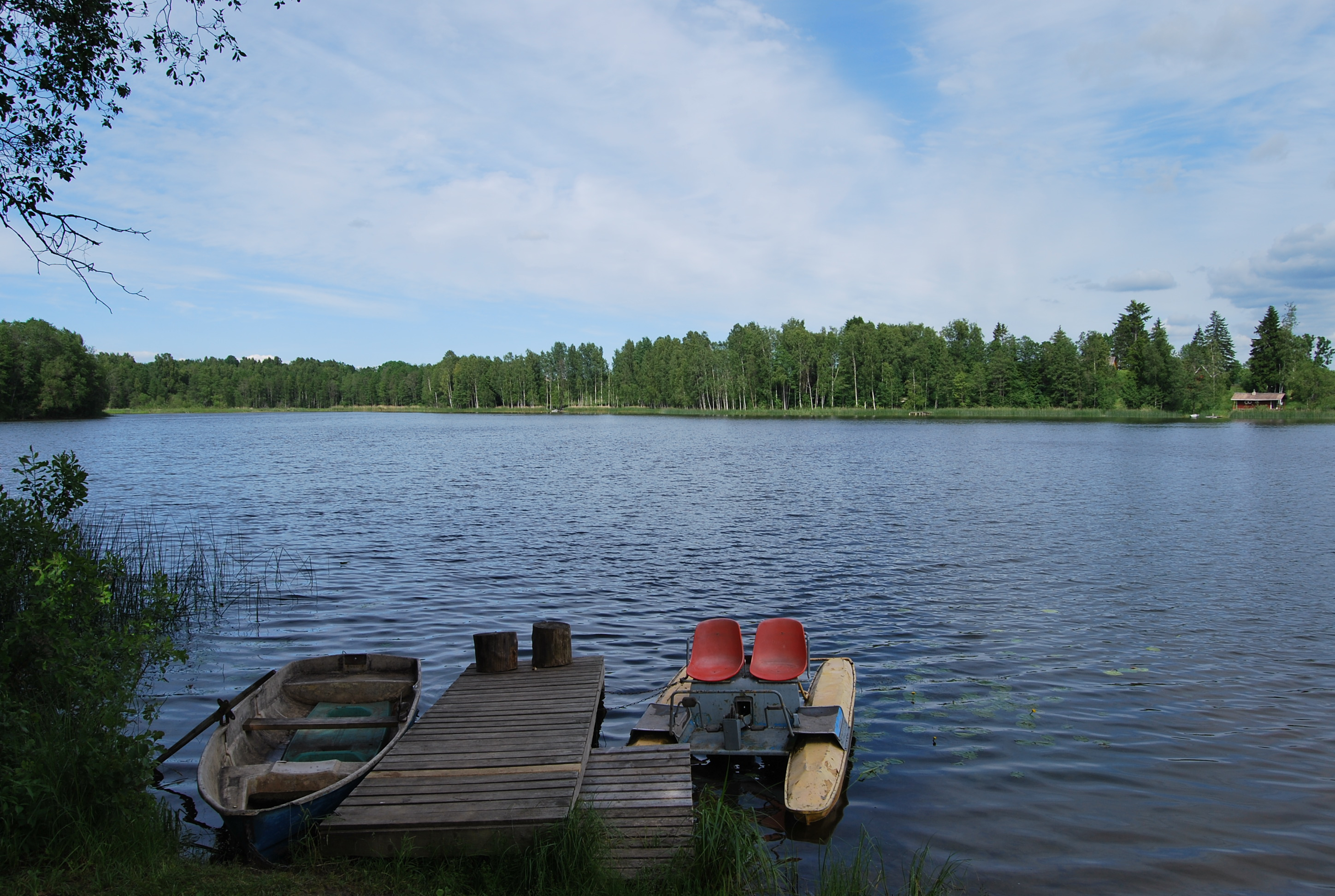 Lake Võistre in Viljandi District, Estonia.